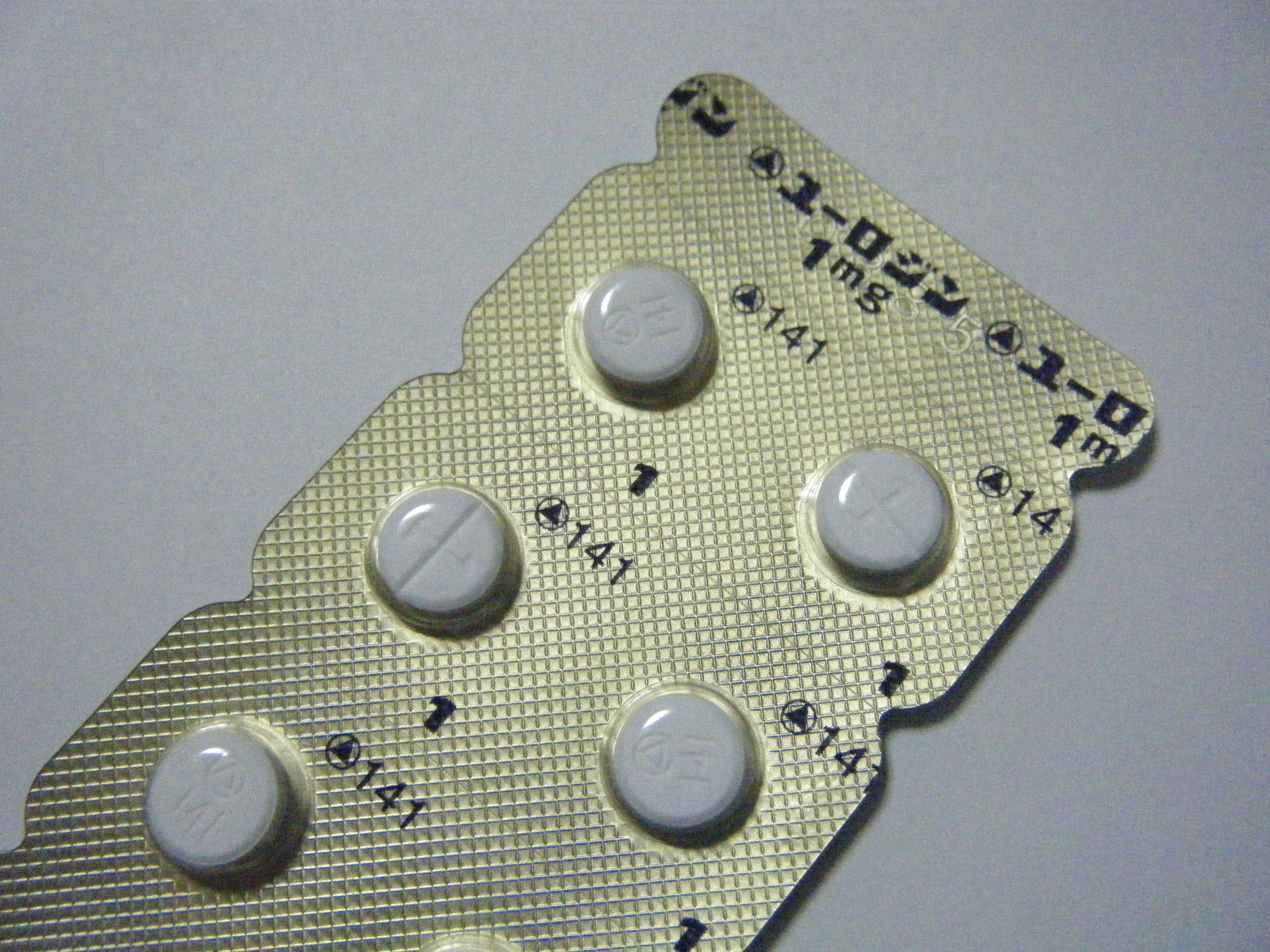 Eurodin (estazolam) 1 mg tablets